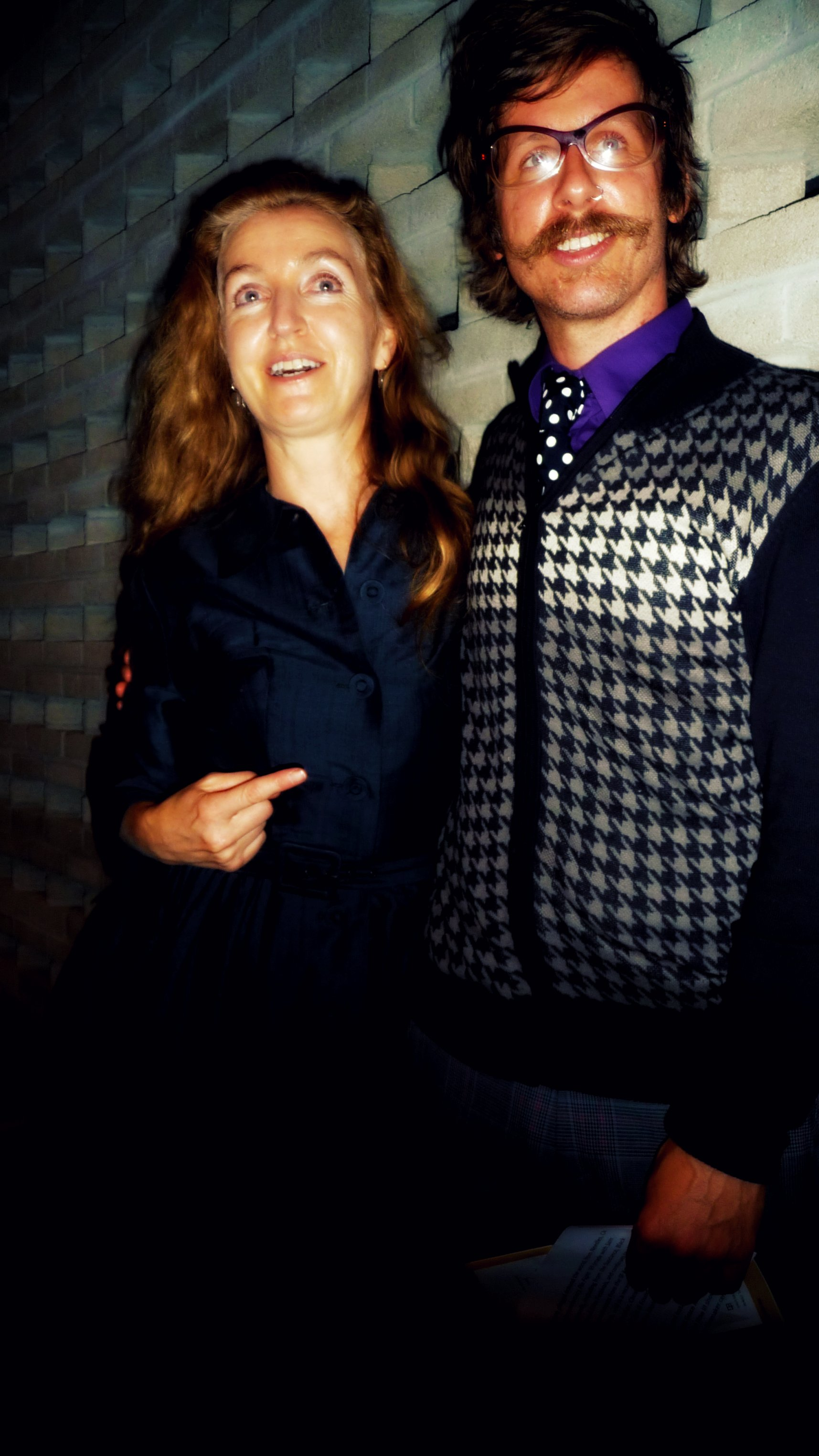 American writer Rebecca Solnit and filmmaker Christian Bruno at the San Francisco Museum of Modern Art.